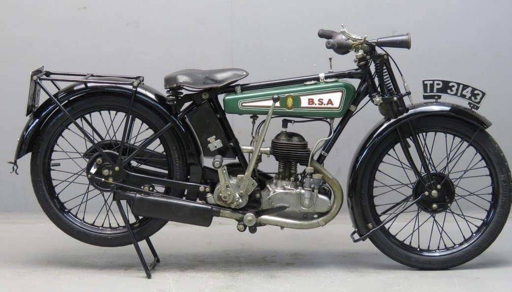 1927 BSA B27 250cc-side valve motorcycle